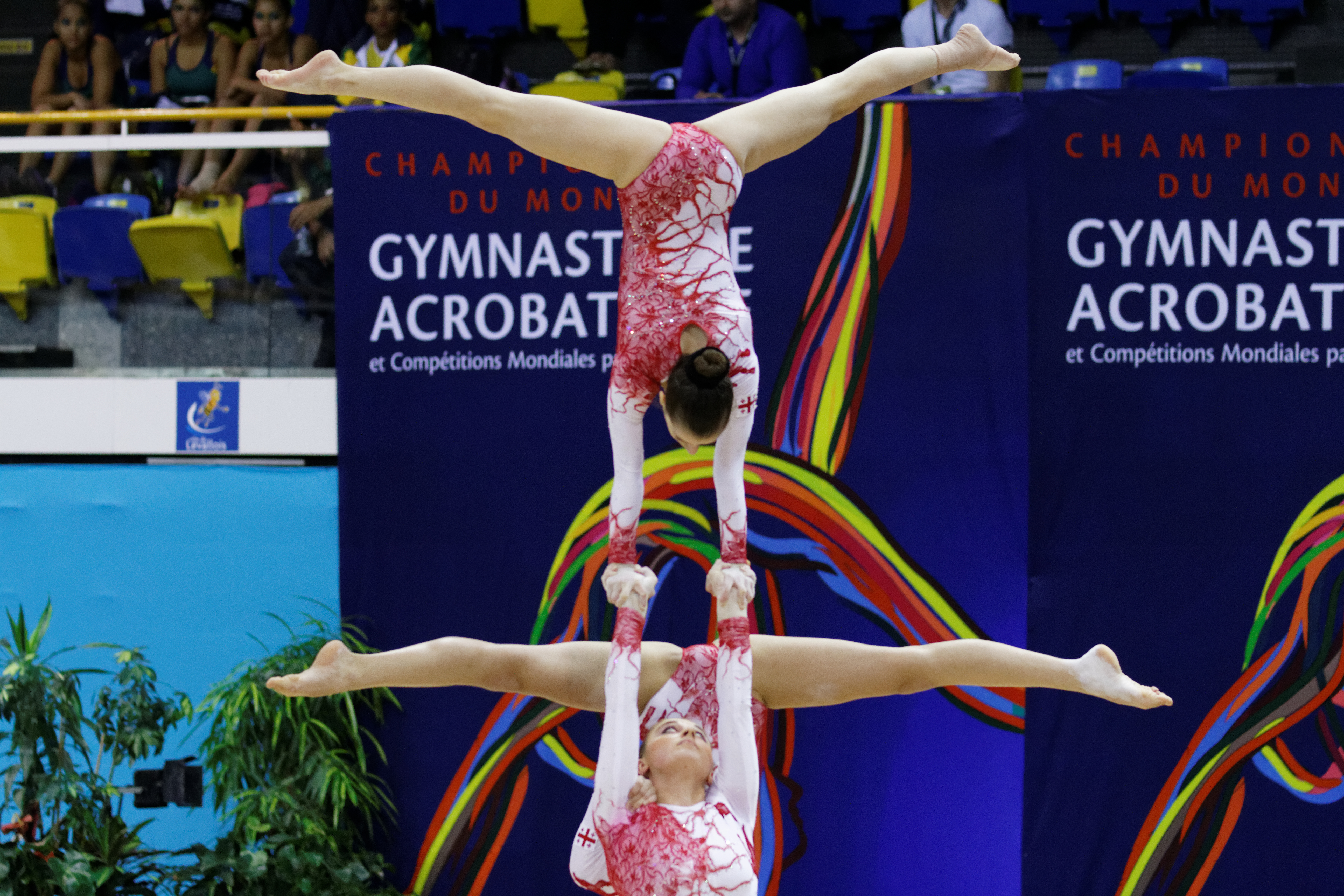 2014 Acrobatic Gymnastics World Championships, 10th-12 July, Levallois-Perret, France. Qualifications: women's group. Georgia.